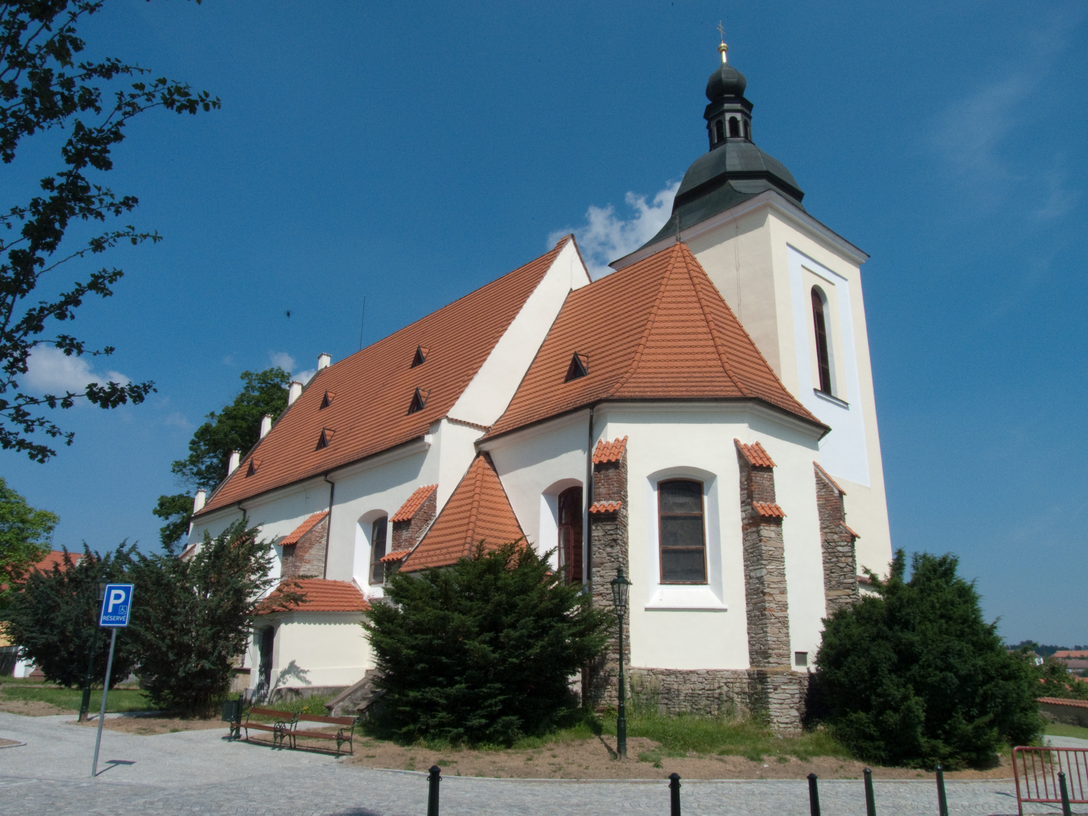 Saint Giles Church in Vlašim castle, Benešov district, Czech Republic from 1523